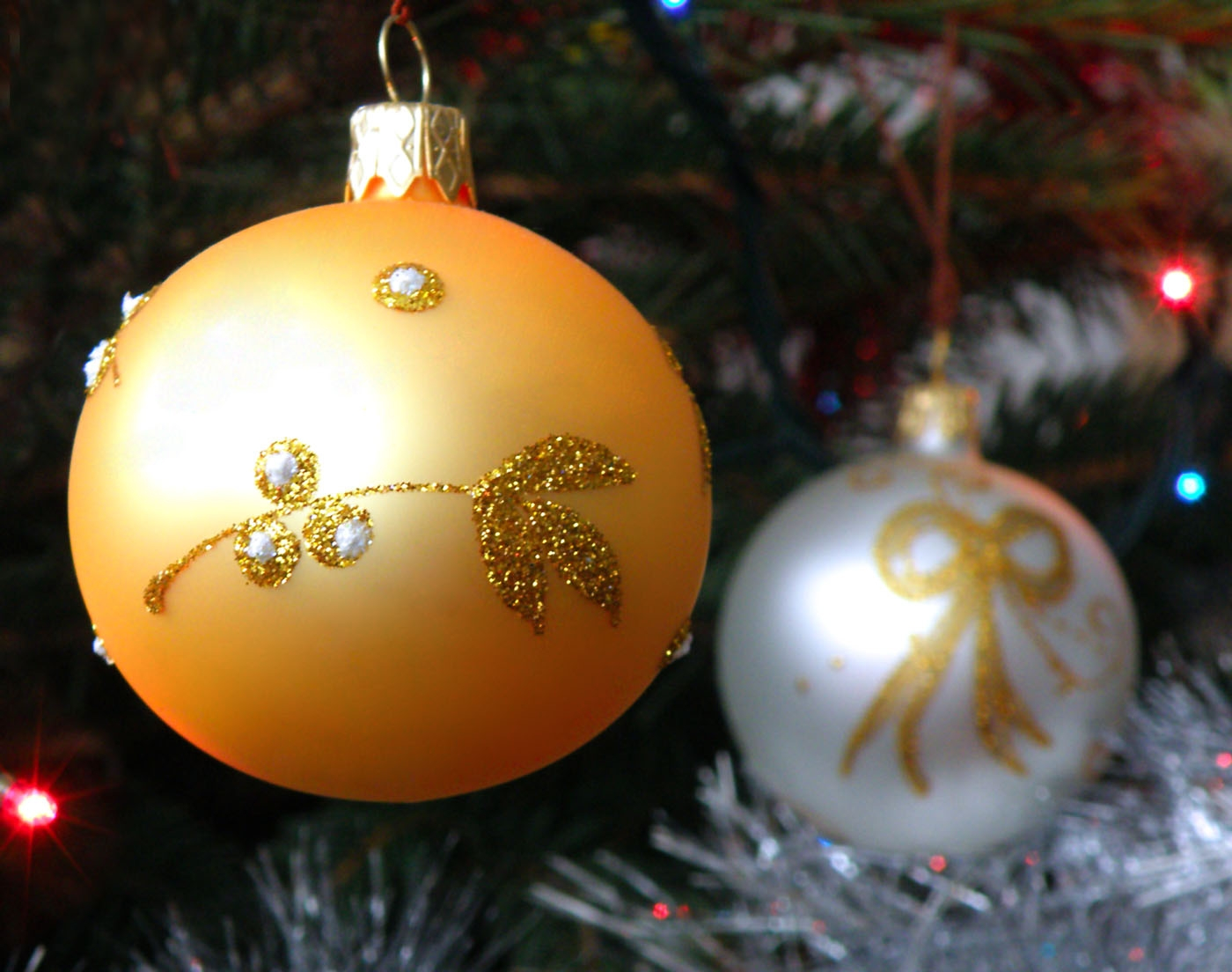 Christmas decorations, Christmas tree